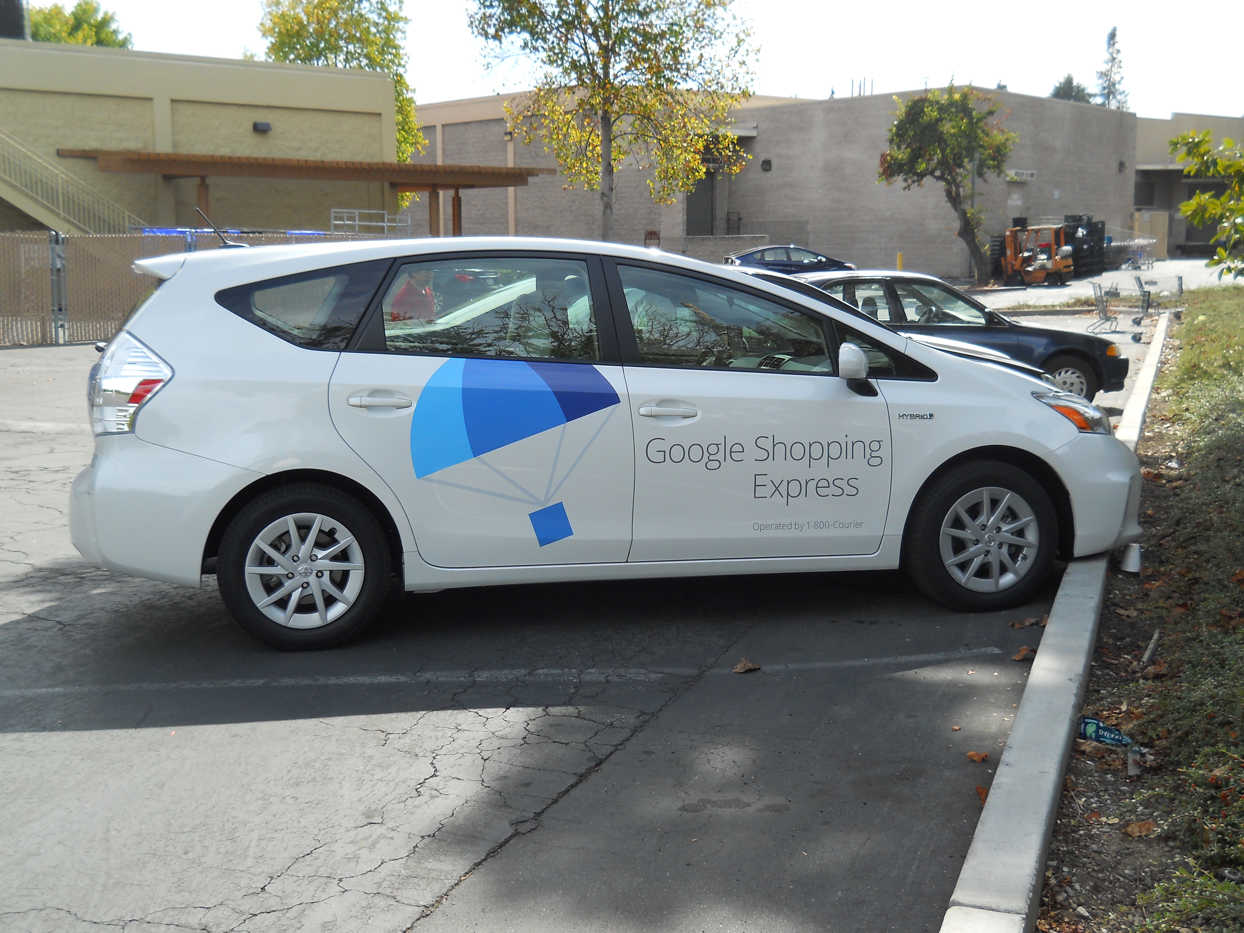 Google Shopping Express car in newer livery, in Mountain View, California